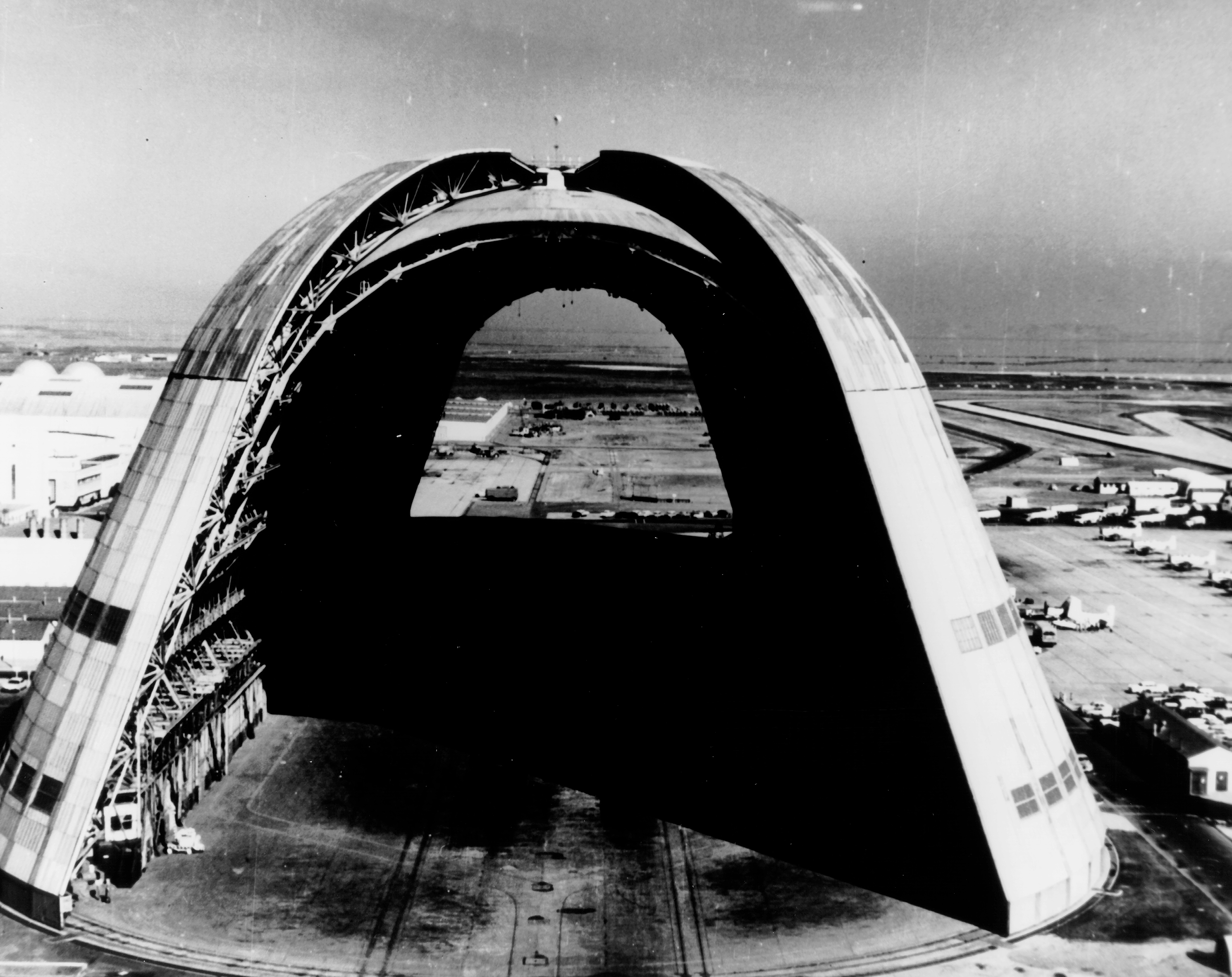 This is a view of the huge dirigible hangar with doors open at both ends at the NASA Ames Research Center, Moffett Field, California. Lockheed Missiles and Space Company under contract to the NASA-Marshall Space Flight Center was to use the hangar for construction and assembly of the nation's first nuclear stage rocket engine. Airplanes are on the ground at right, and in the background is San Francisco Bay. The ready-made "factory" structure was erected in 1931-1933, to house the dirigible Macon, which crashed off the California coast in 1935. It has been used by the Navy for blimps and aircraft. The floor area 1,138 feet by 308 feet, covers over eight acres or enough to hold seven football fields. The height of the hangar is 198 feet, ample for the company to erect the RIET (Reactor-In-Flight Test) stage in an upright position. The program was eventually canceled.